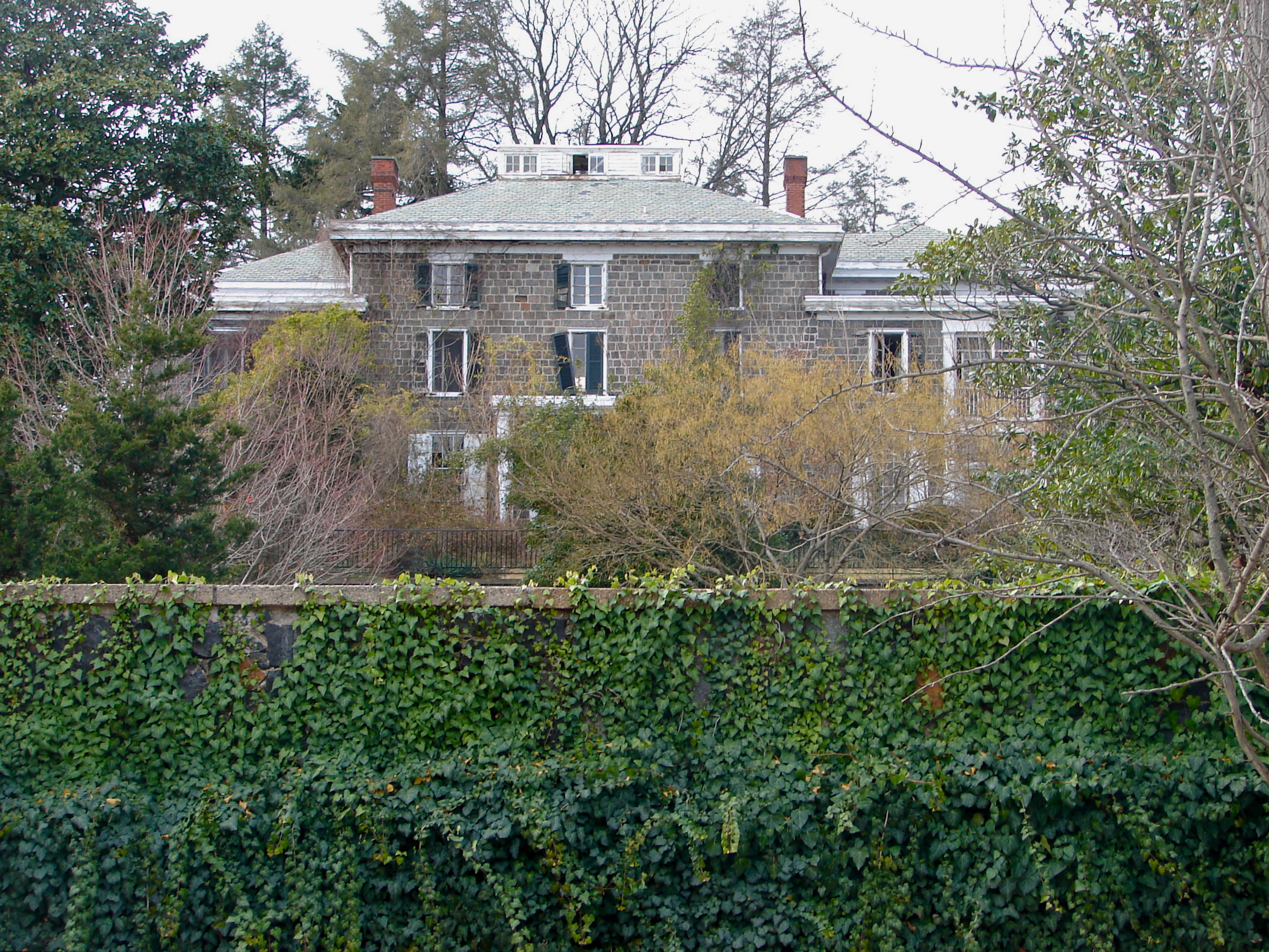 Wall in front of Gibraltar, a house in Wilmington, Delaware, on the NRHP since September 14, 1998. At 2501 Pennsylvania Ave., Wilmington